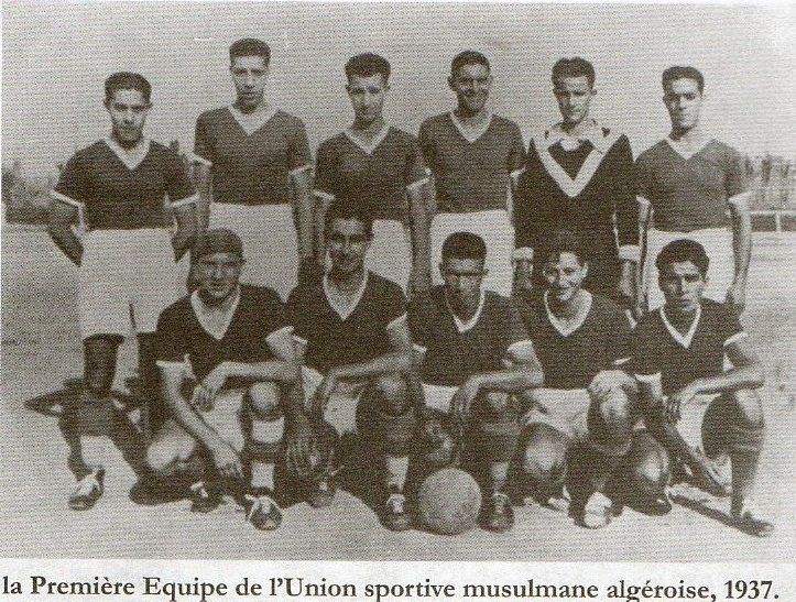 First USM Alger Team in 1937 with From Left to Right: Stand Up : Hamid Bahri - Mohamed Hamdi - Youssef Choudar - Benhora - Franck (GK) - Driss. Sitting Smain - Mokrane - Nasri - Ortula - Houari.